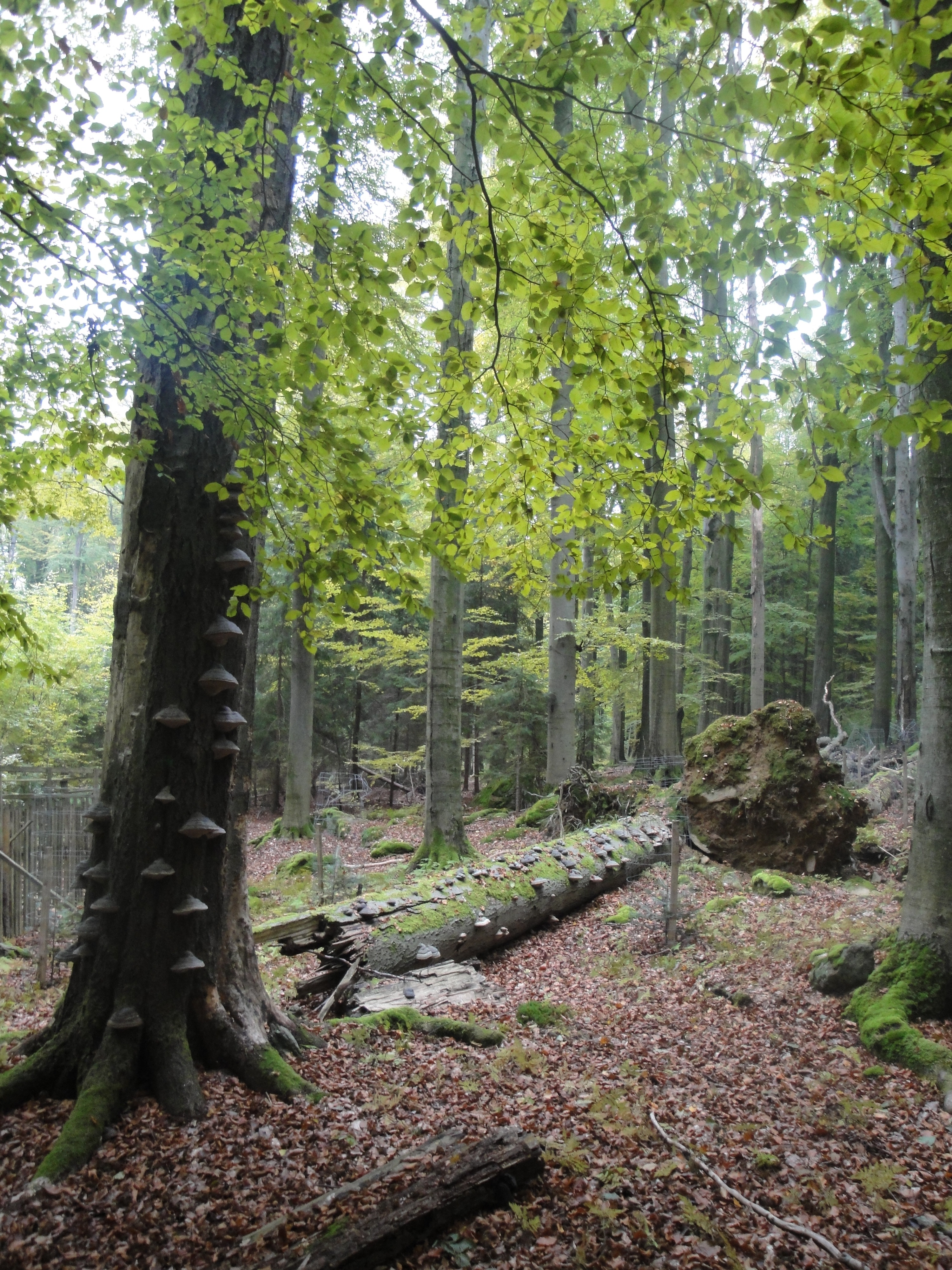 Nature reserve Baba - V bukách in Žďár nad Sázavou District, Czech Republic